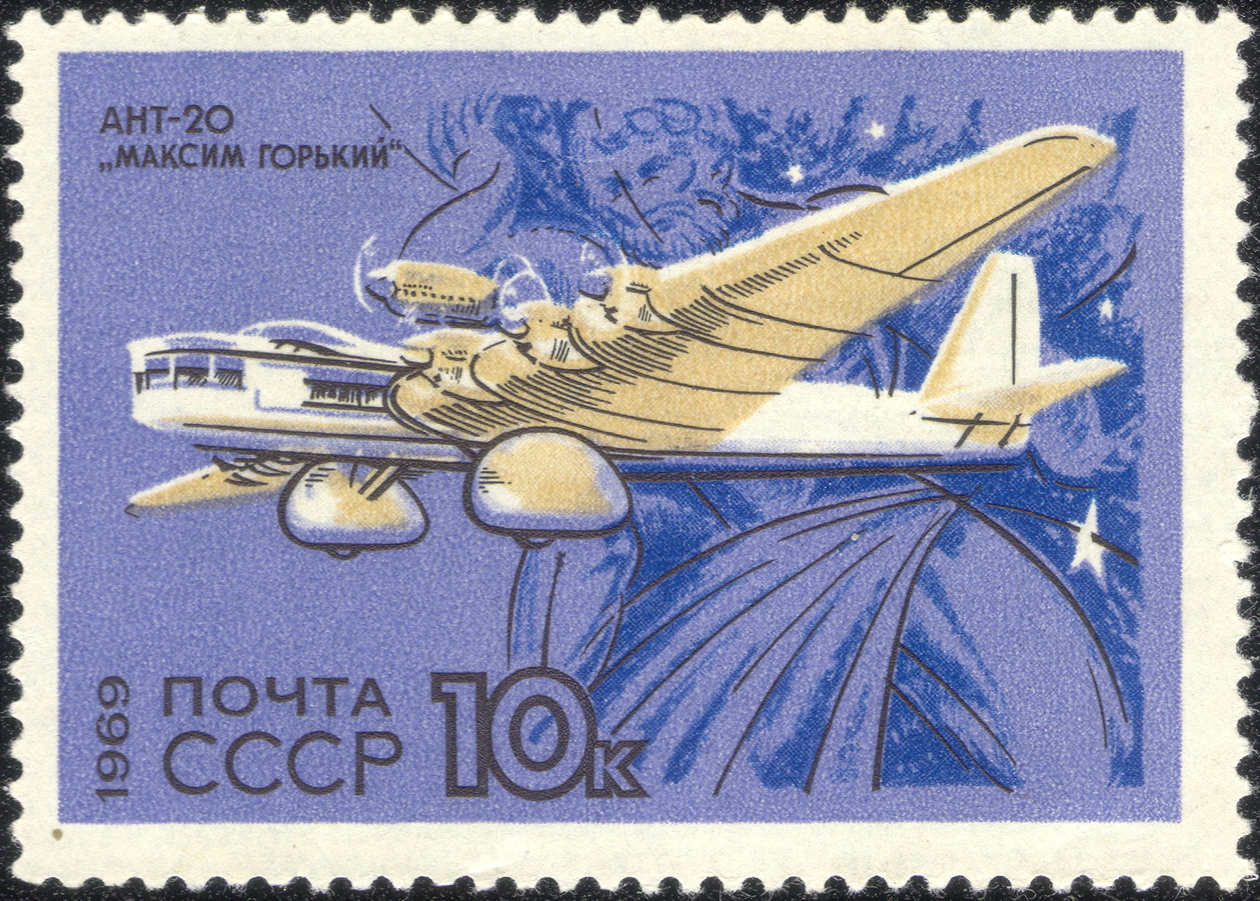 USSR stampː Airplane Tupolev ANT-20 Maxim Gorky, 1934. Atlas. Seriesː Develoment of Soviet Civil Aviation